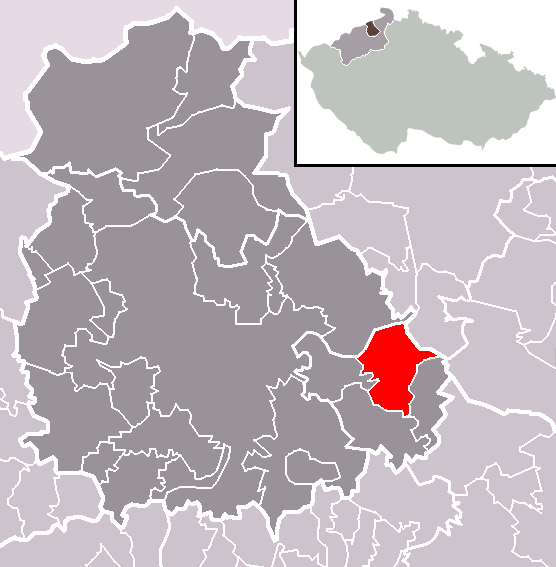 Location of Malé Březno municipality within Ústí nad Labem District and administrative area of Ústí nad Labem as a Municipality with Extended Competence.